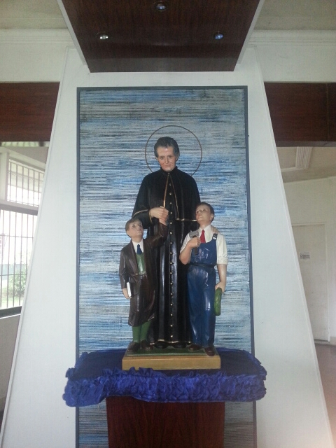 Statue of St.John Bosco at the Diocesan Shrine of Mary Help of Christians, Canlubang, Calamba City, Laguna, Philipppines